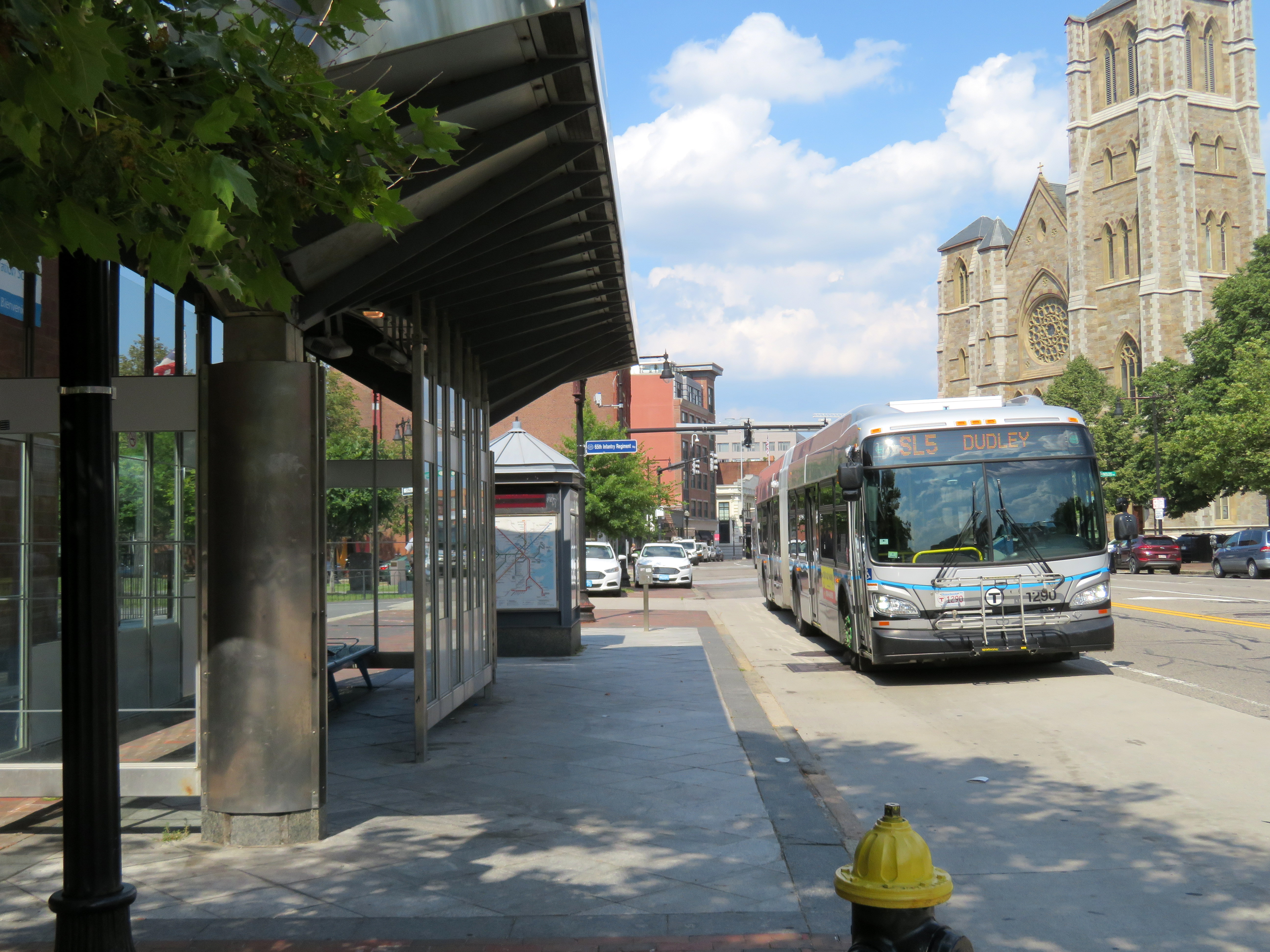 A route SL5 bus southbound at Union Park Street station in July 2019